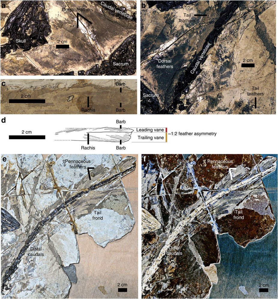 Figure 5: Plumage of Jianianhualong tengi holotype DLXH 1218. (a) Feathers over dorsals, (b) feathers attached to anterior caudals, (c) asymmetrical tail feather, (d) line drawing of asymmetrical tail feather, (e) tail frond and (f) negative LSF image of tail frond. All scale bars, 2 cm.